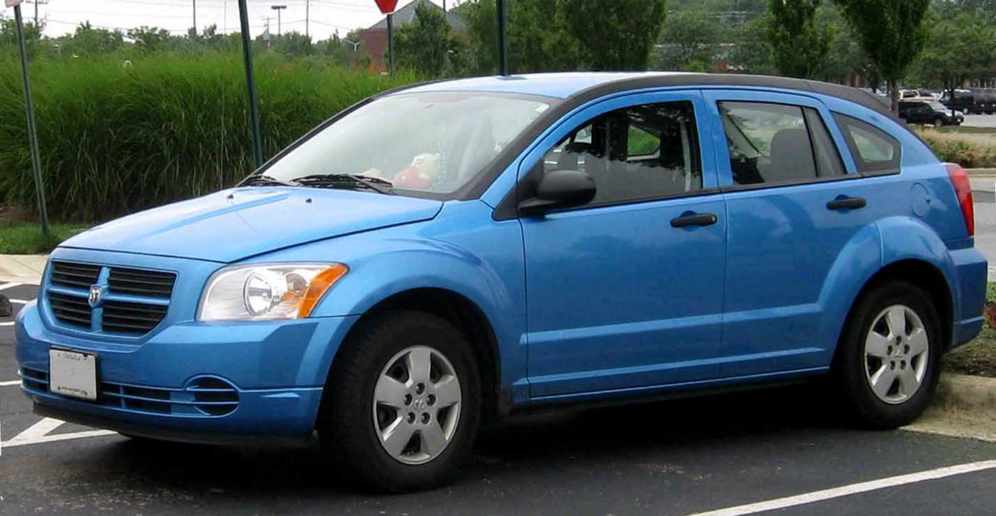 2007-2008 Dodge Caliber photographed in Clinton, Maryland, USA.